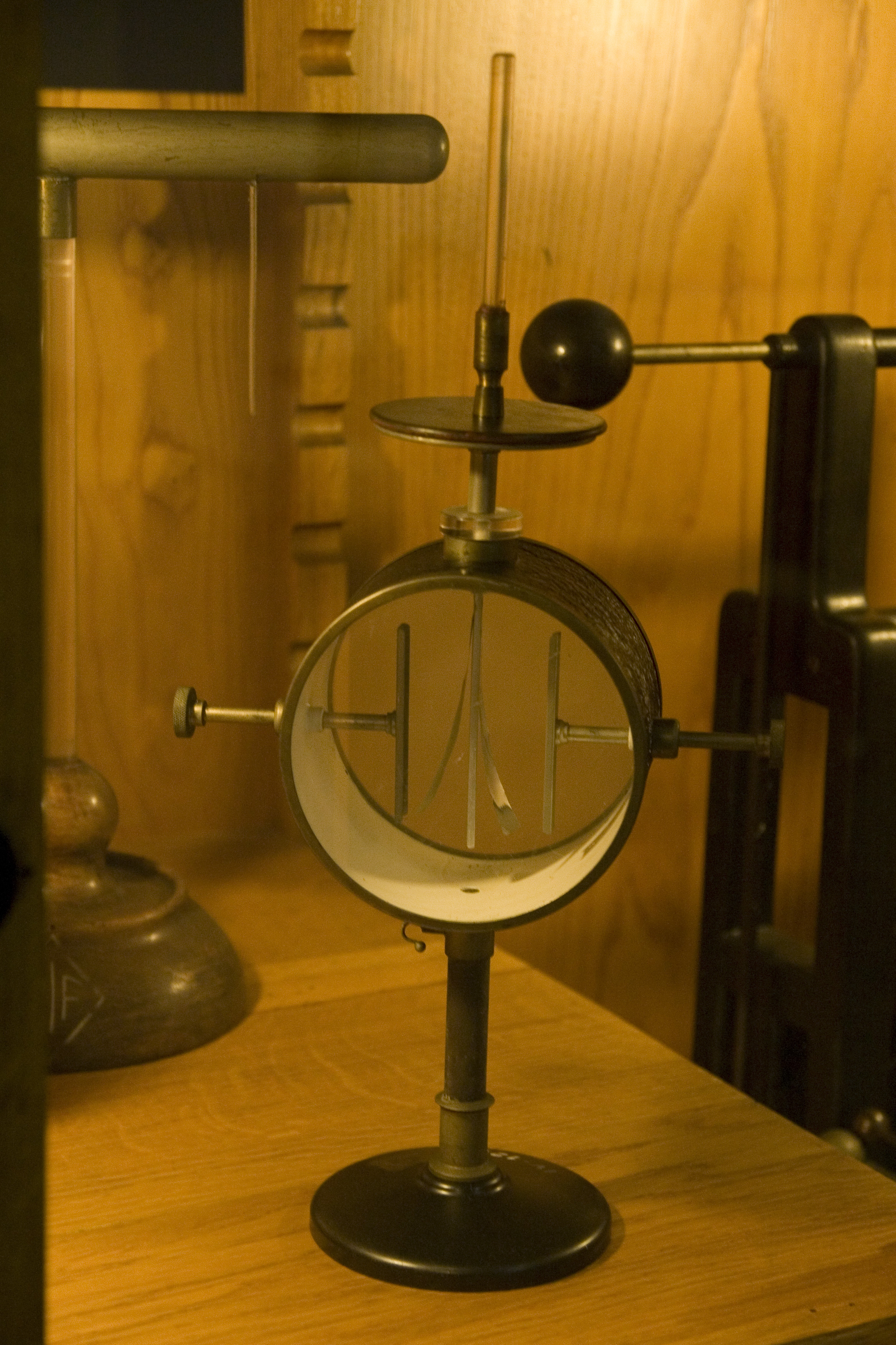 Gold-leaf electroscope. Located at Ed. Marconi, physics department, Rome university "La Sapienza".